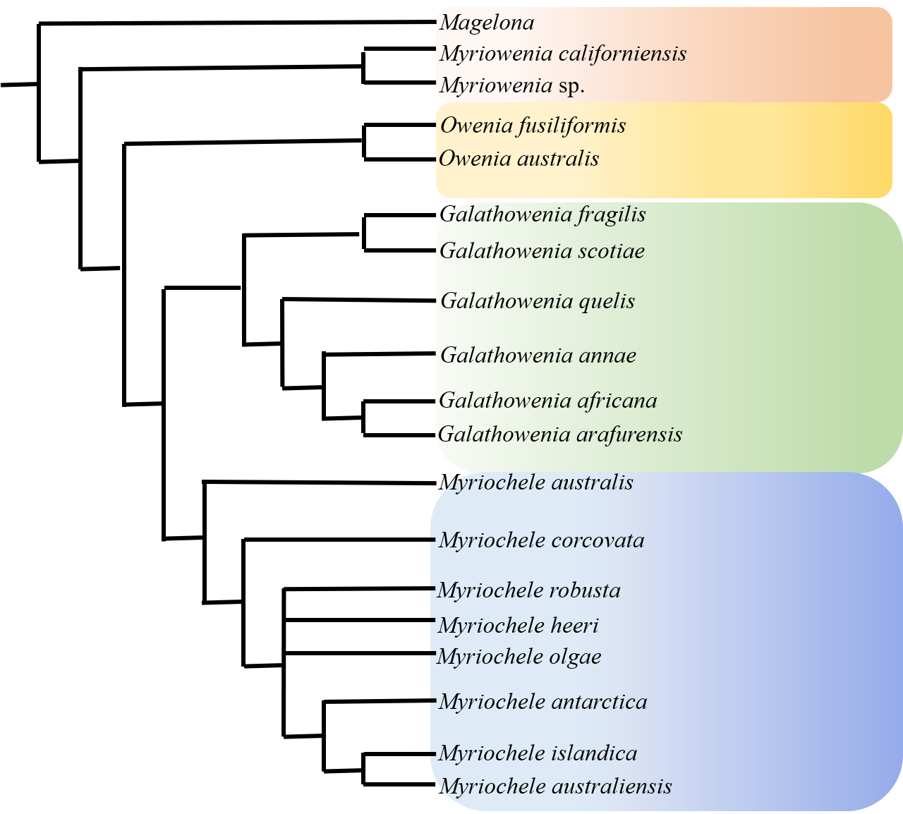 Oweniidae phylogenetic tree based on Capa et al. (2012)